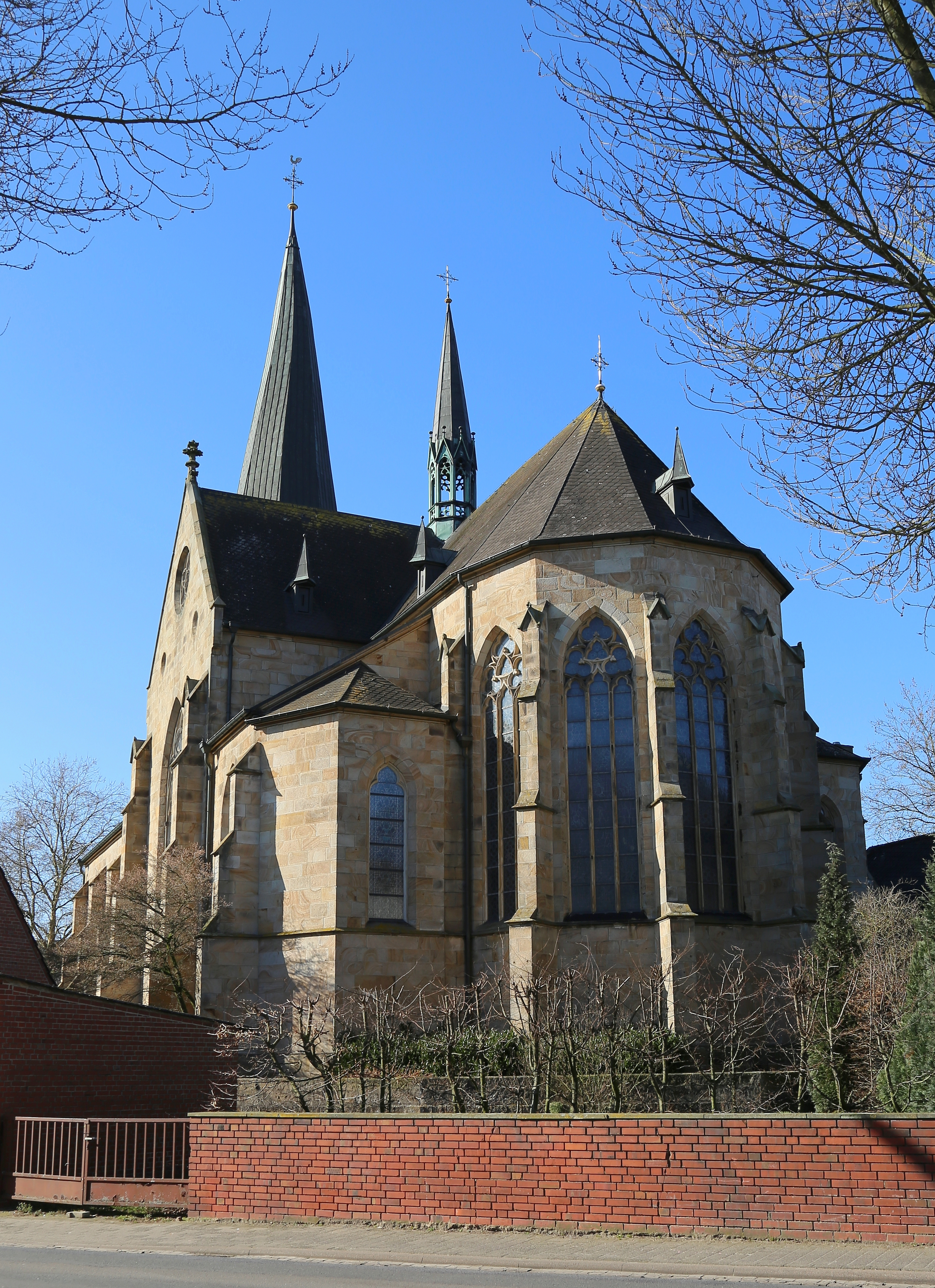 Roman Catholic Saint George Parish Church (Pfarrkirche St. Georg) in Saerbeck, Kreis Steinfurt, North Rhine-Westphalia, Germany.